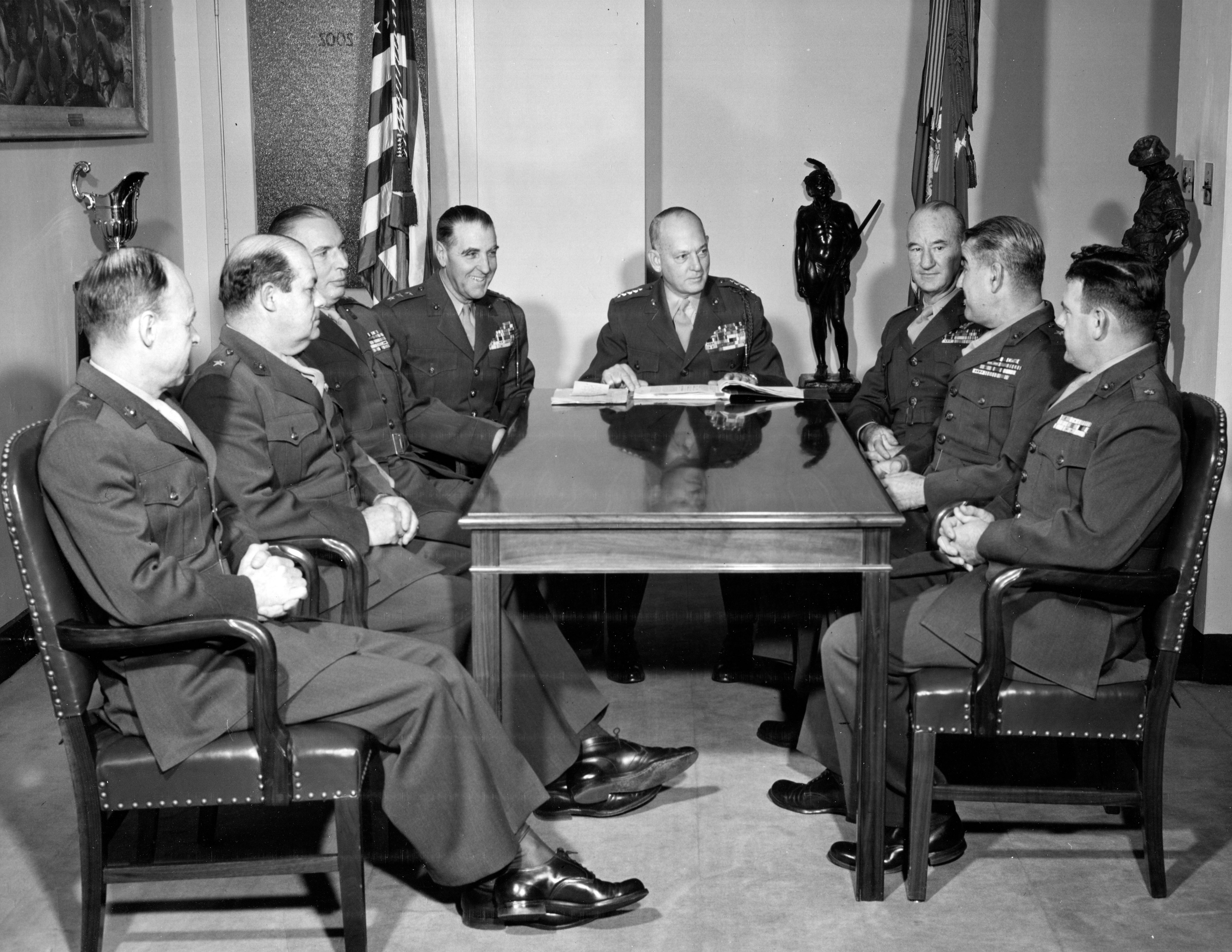 Commandant's Conference - General Lemuel C. Shepherd Jr. (center), Twentieth Commandant of the Marine Corps, is pictured with members of his staff at Headquarters Marine Corps, Washington, D.C. On the Commandant's left is Lieutenant general Gerald C. Thomas, Assistant Commandant; on his right is Major general William O. Brice, Assistant Commandant (for Air). Seated on the left side of the table are: Brigadier general Nels H. Nelson, Assistant Chief of Staff for Personnel (G-1); Brigadier general Thomas A. Wornham, Assistant Chief of Staff for Operations (G-3); Major General Walter W. Wensinger, Deputy Chief of Staff; on the right side of the table seated next to Major general Brice is Brigadier general Arthur H. Butler, Assistant Chief of Staff for Logistics (G-4); followed by Lieutenant colonel Chester A. Henry, acting Assistant Chief of Staff for Intelligence (G-2).